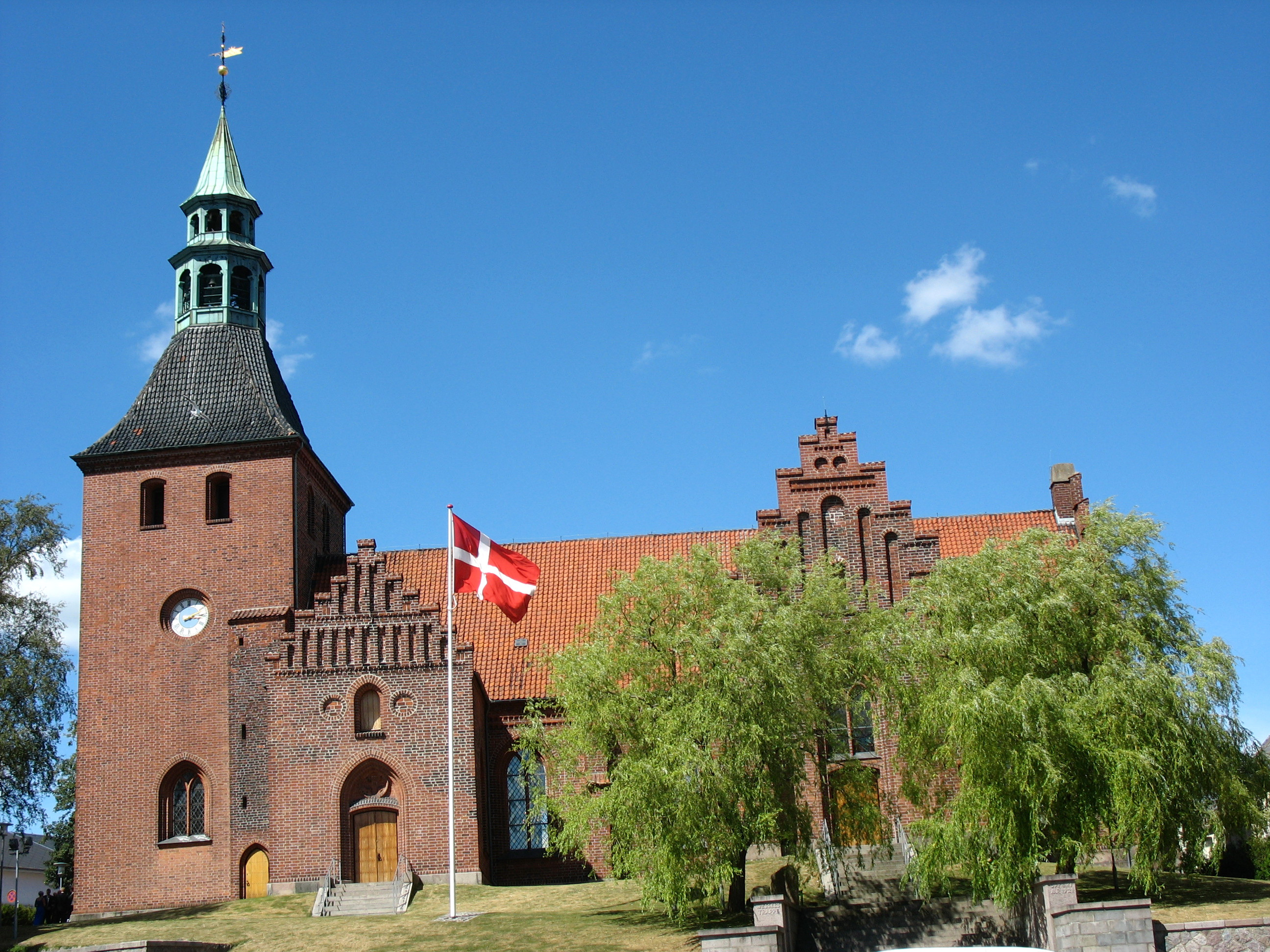 The church "Vor Frue Kirke" in the Danish town "Svendborg" (on the island Funen).